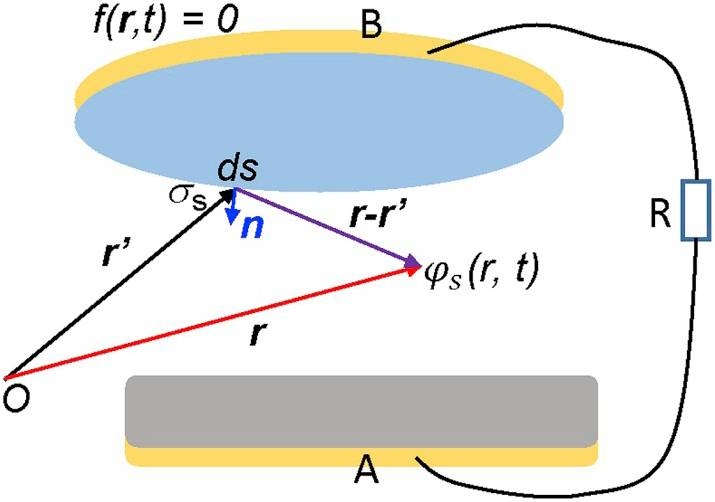 Fig. 1. Schematic representation of a nanogenerator that is hooked up with an external load, and the corresponding coordination system for mathematical description.